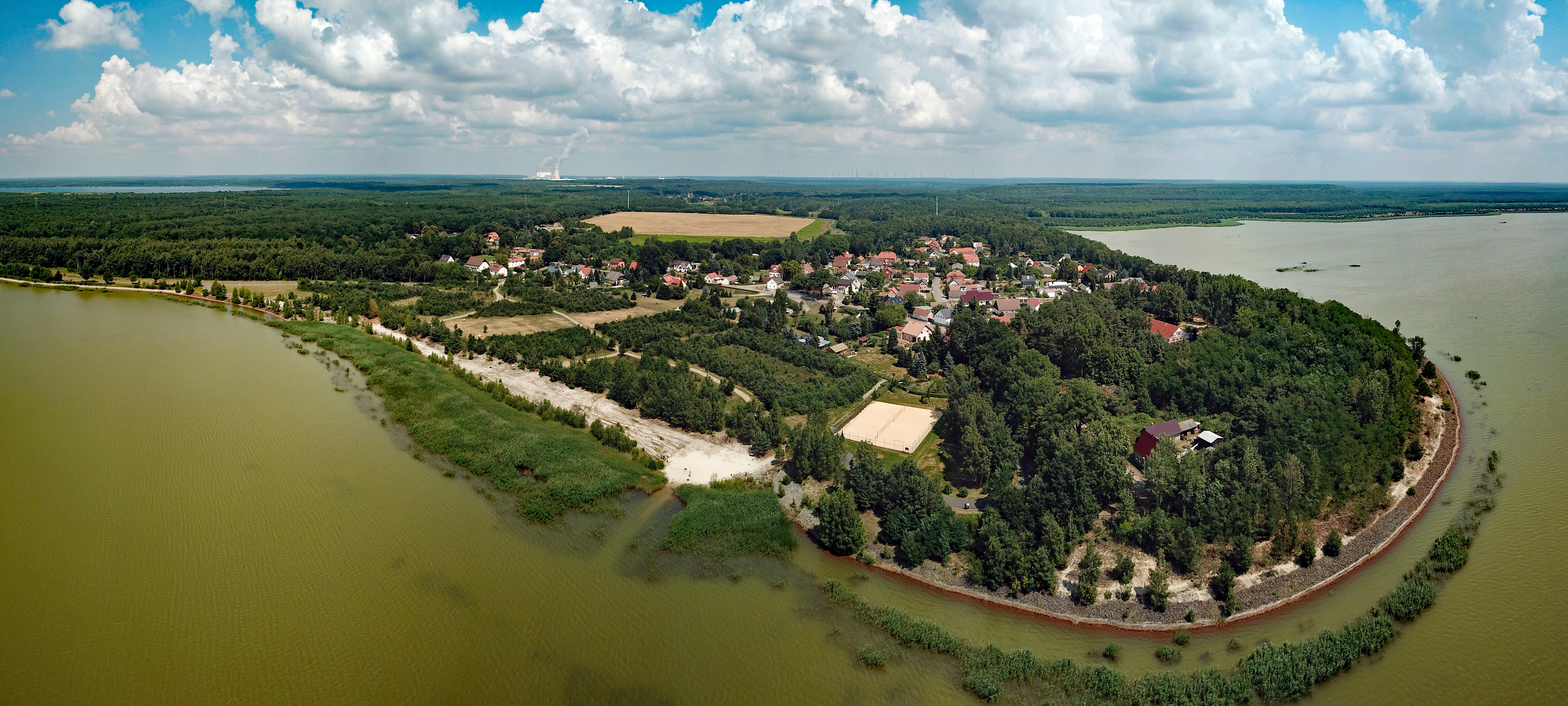 Burghammer (Spreetal, Saxony, Germany) Hornjoserbsce: Powětrowy wobraz Bórkhamora